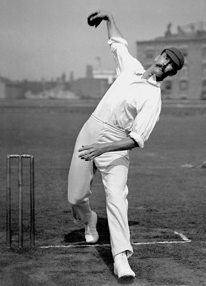 Reginald Oscar Schwarz, Middlesex, Transvaal, and South South Africa, circa 1905.